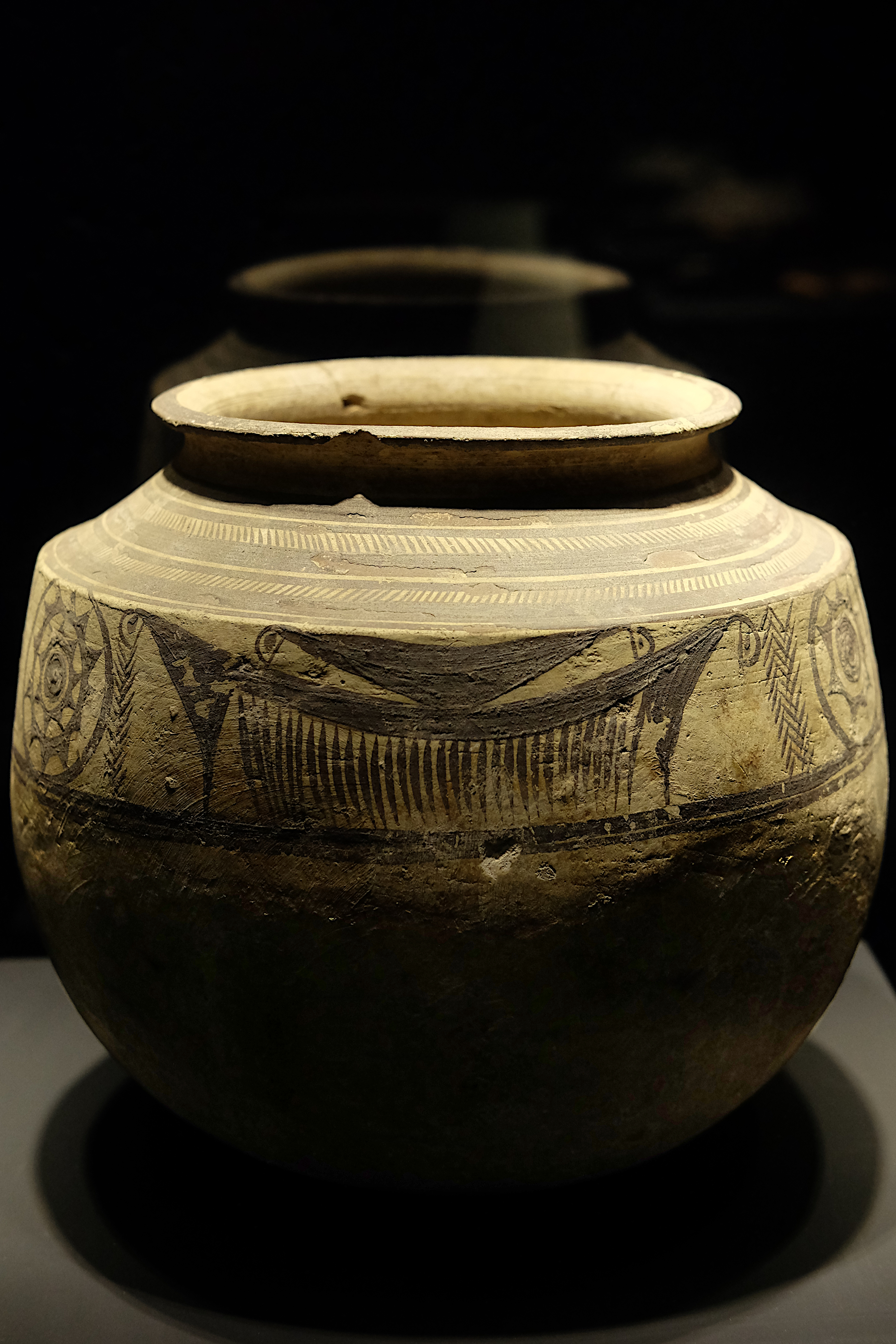 Mainly known for a necropolis of 19 graves, the phase of Giyan IV delivers ceramic in abundance. The jars are generally decorated with raised bands in horizontal and wavy raised bands. Only the neck of the jar is painted, the rest is blank. The most significant motifs in this phase are pairs of birds with wings spread in the shape of a comb and rows of sawtooth patterns.